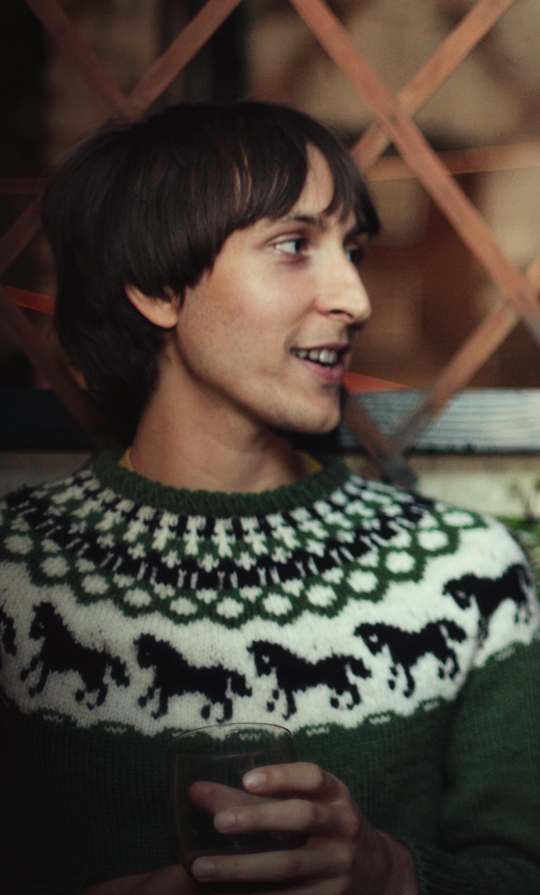 Alex Somers at Riceboy Sleeps Launch Party